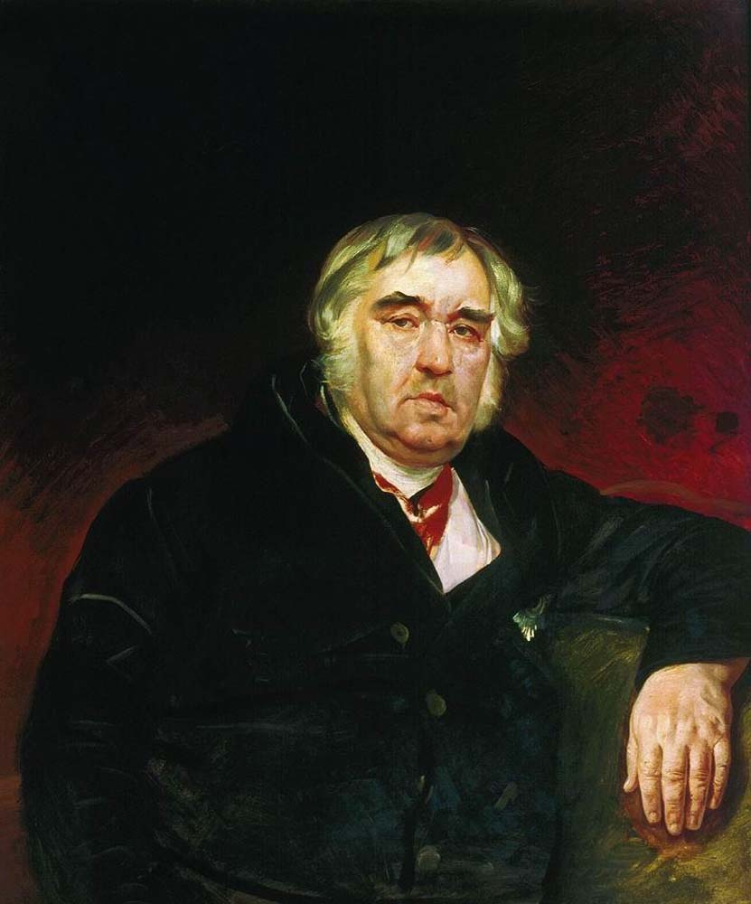 Portrait of fabulist Ivan Andreyevich Krylov , 1839. Not finished. Oil on canvas. 102.3 x 86.2 cm. The State Tretyakov Gallery, Moscow, Russia